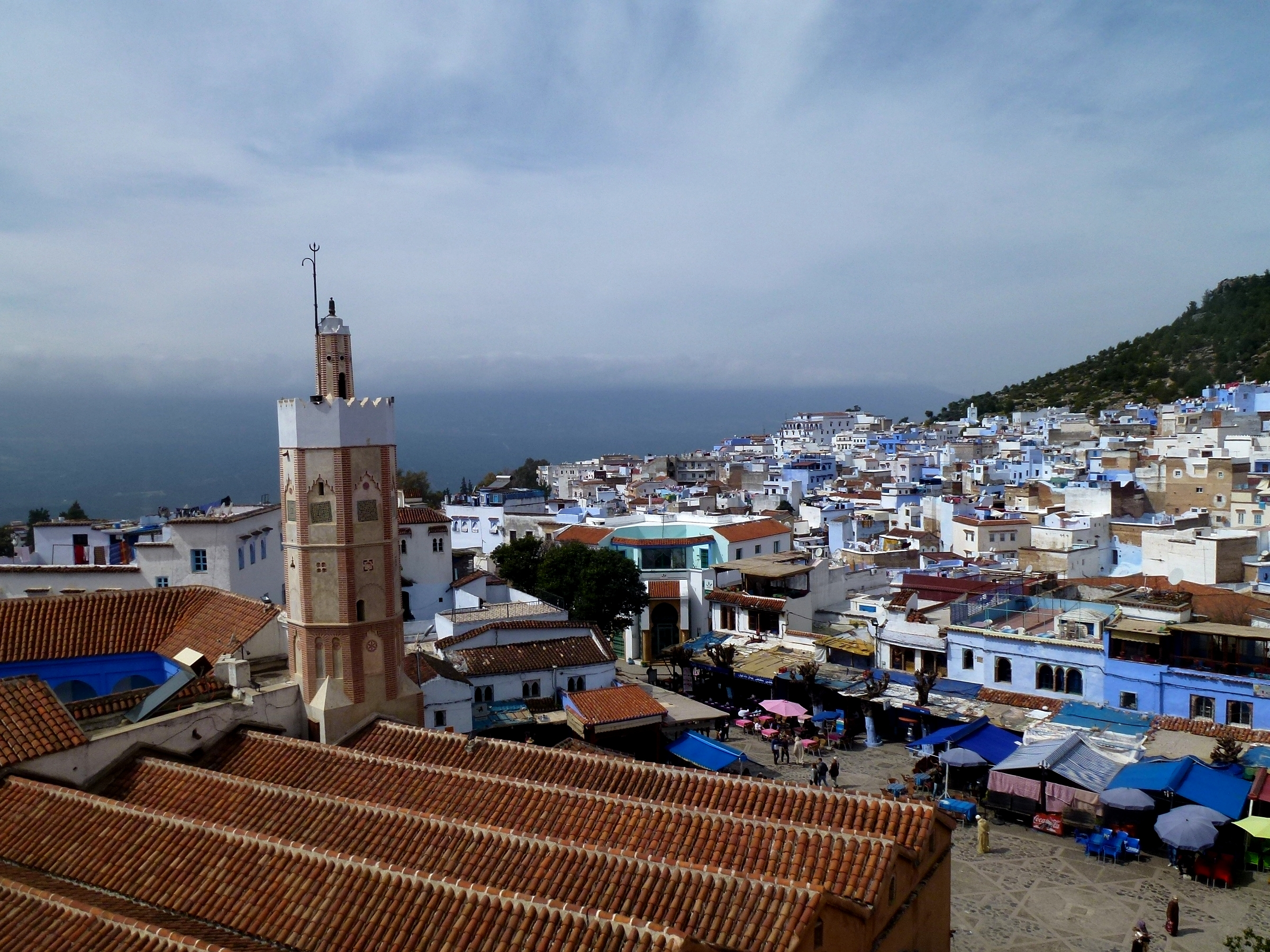 Chaouen Morocco